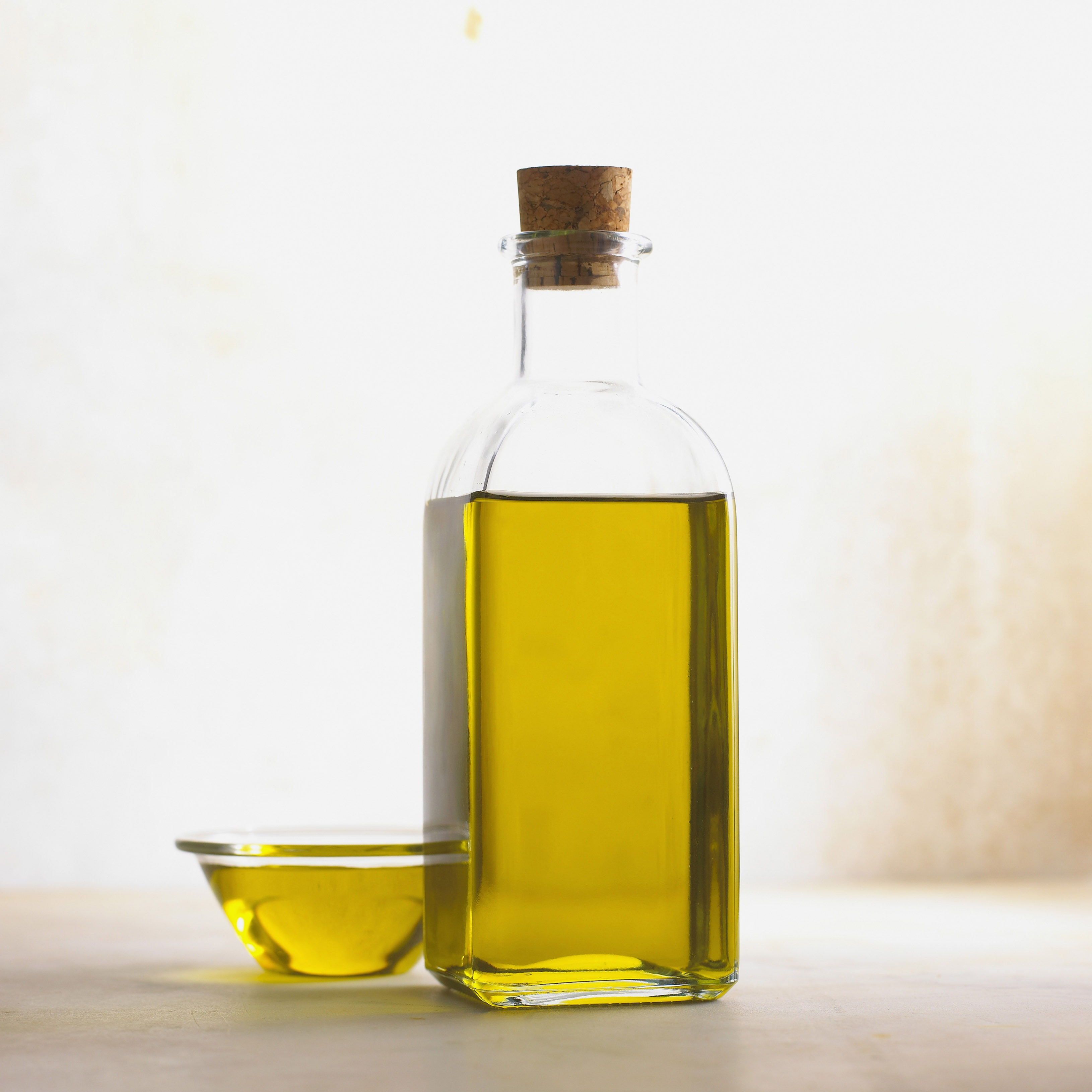 Oli de l'Empordà is an extra-virgin olive oil with Protected designation of origin (PDO) produced in the historical region of Empordà, Catalonia.